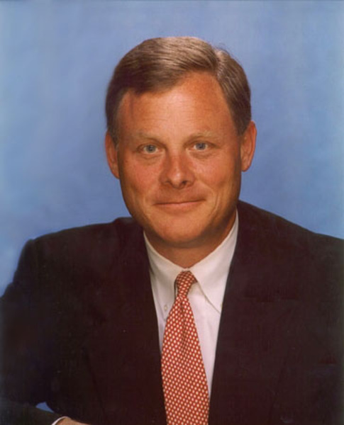 Richard Burr, U.S. Senator from North Carolina.